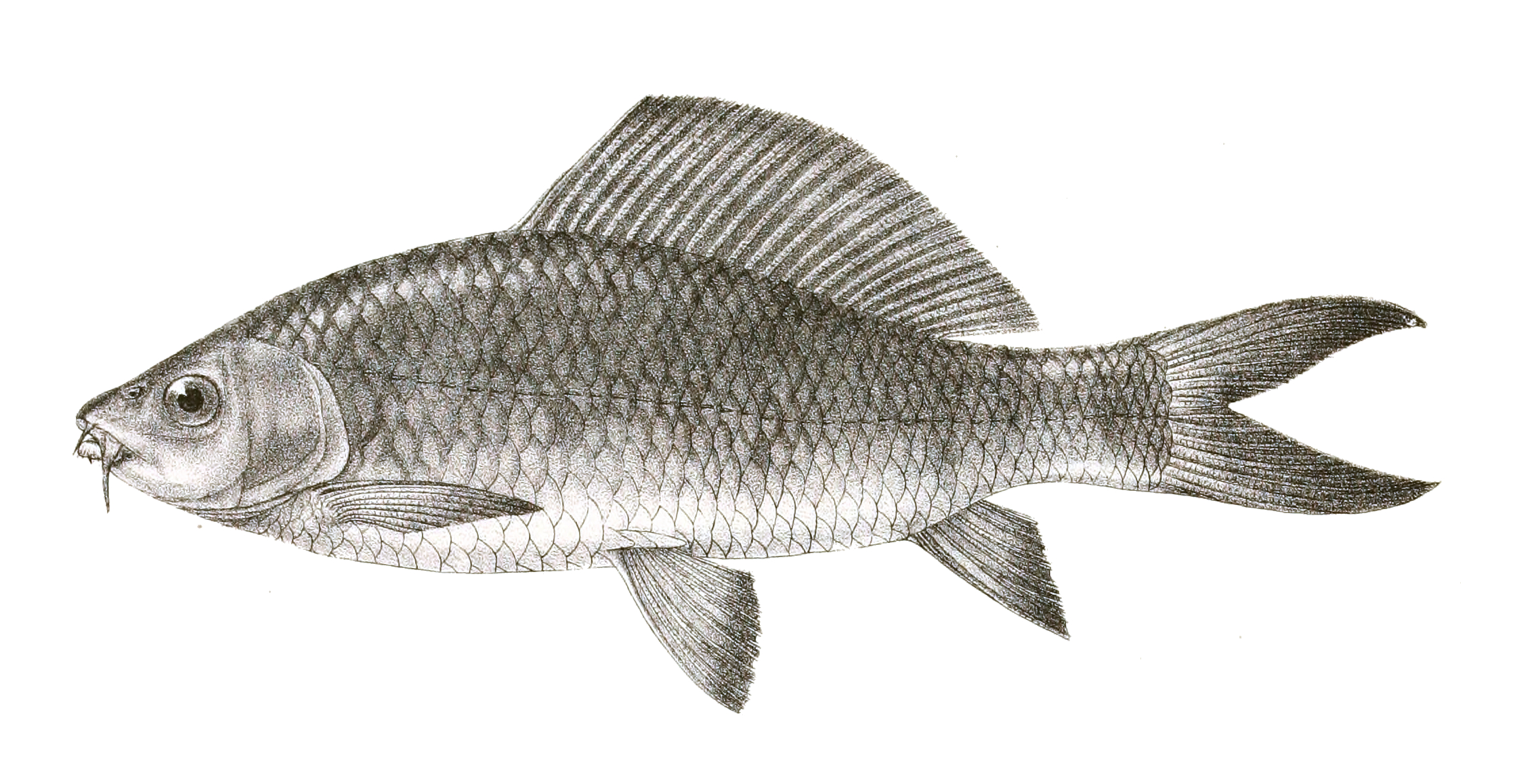 The species names / identity need verification - original names from plate are included here. The original plates showed the fishes facing right and have been flipped here. Labeo nandina